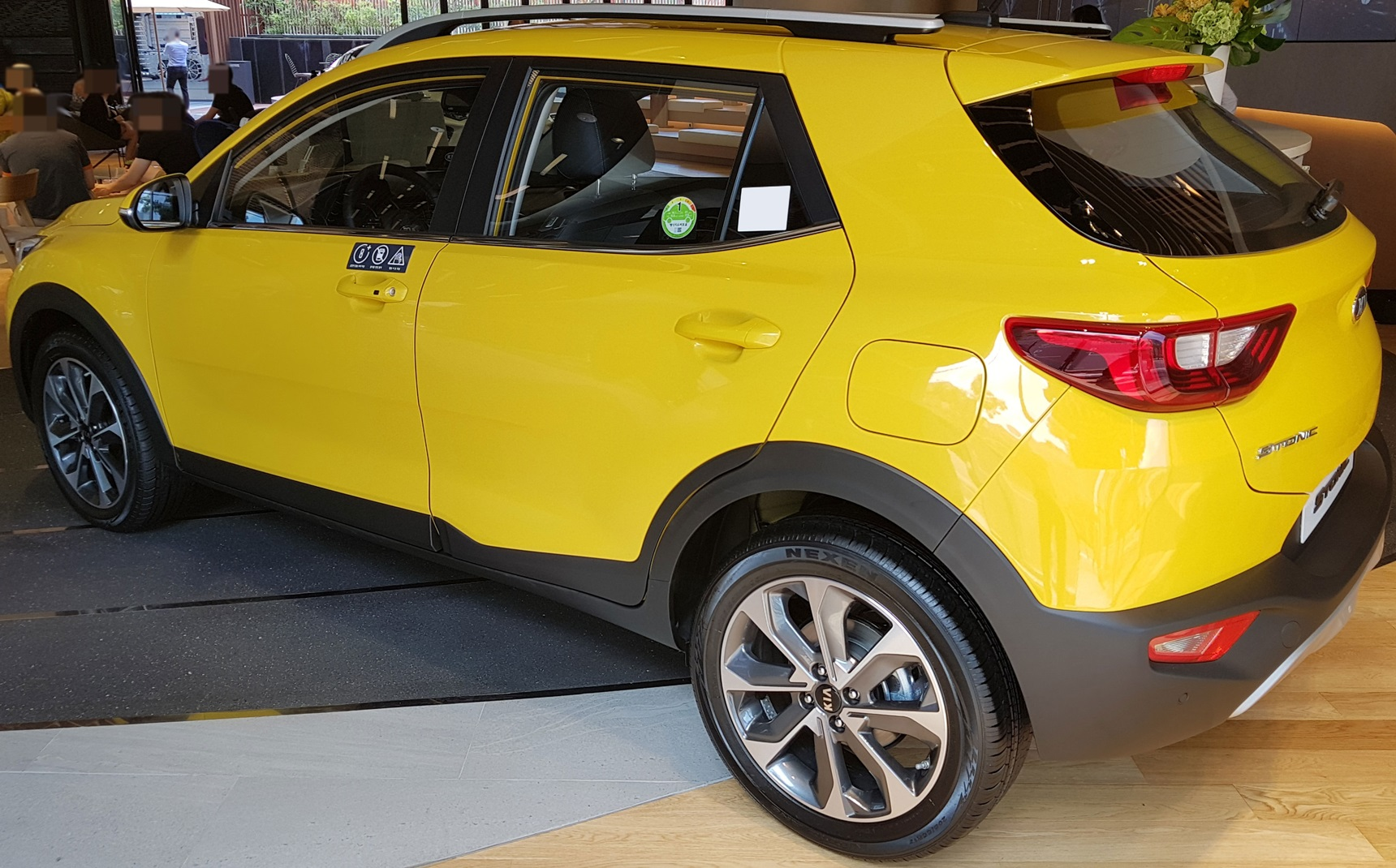 Kia Stonic